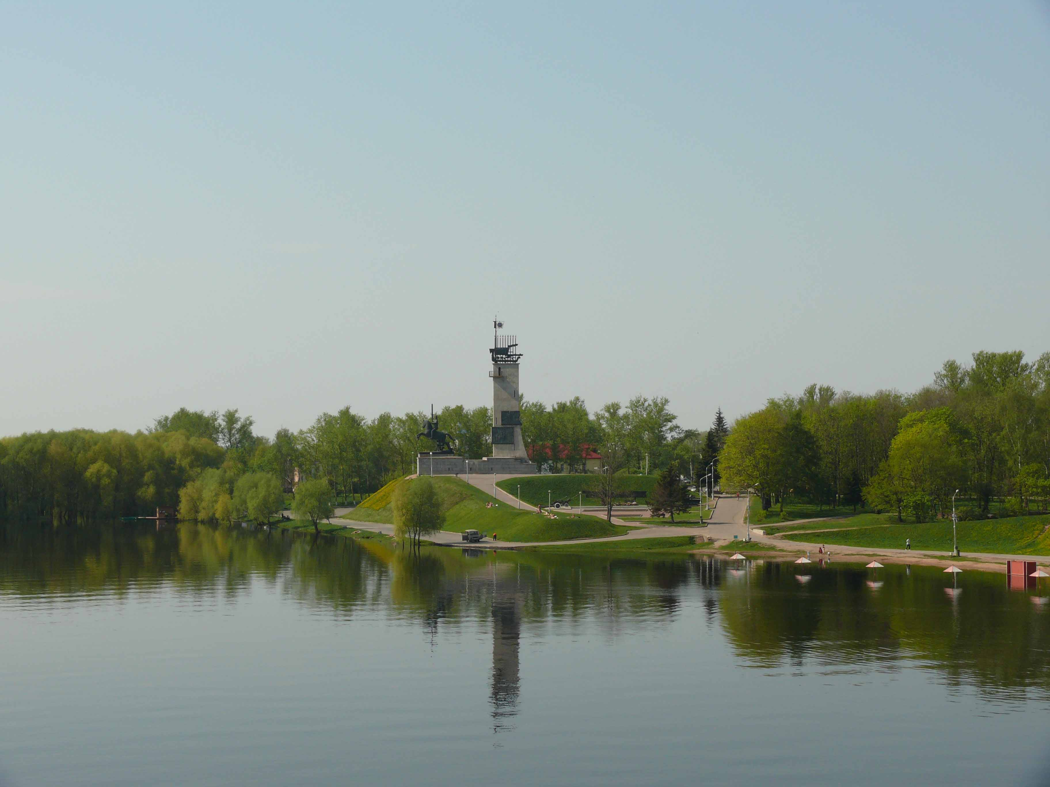 Victory Monument in Veliky Novgorod, Russia, seen from the pedestrian bridge.